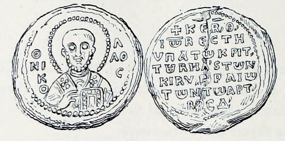 Seal of Ioannes Artabasdos, vestes, hypatos, krites tou velou and [krites] of the Kibyrrhaiotai